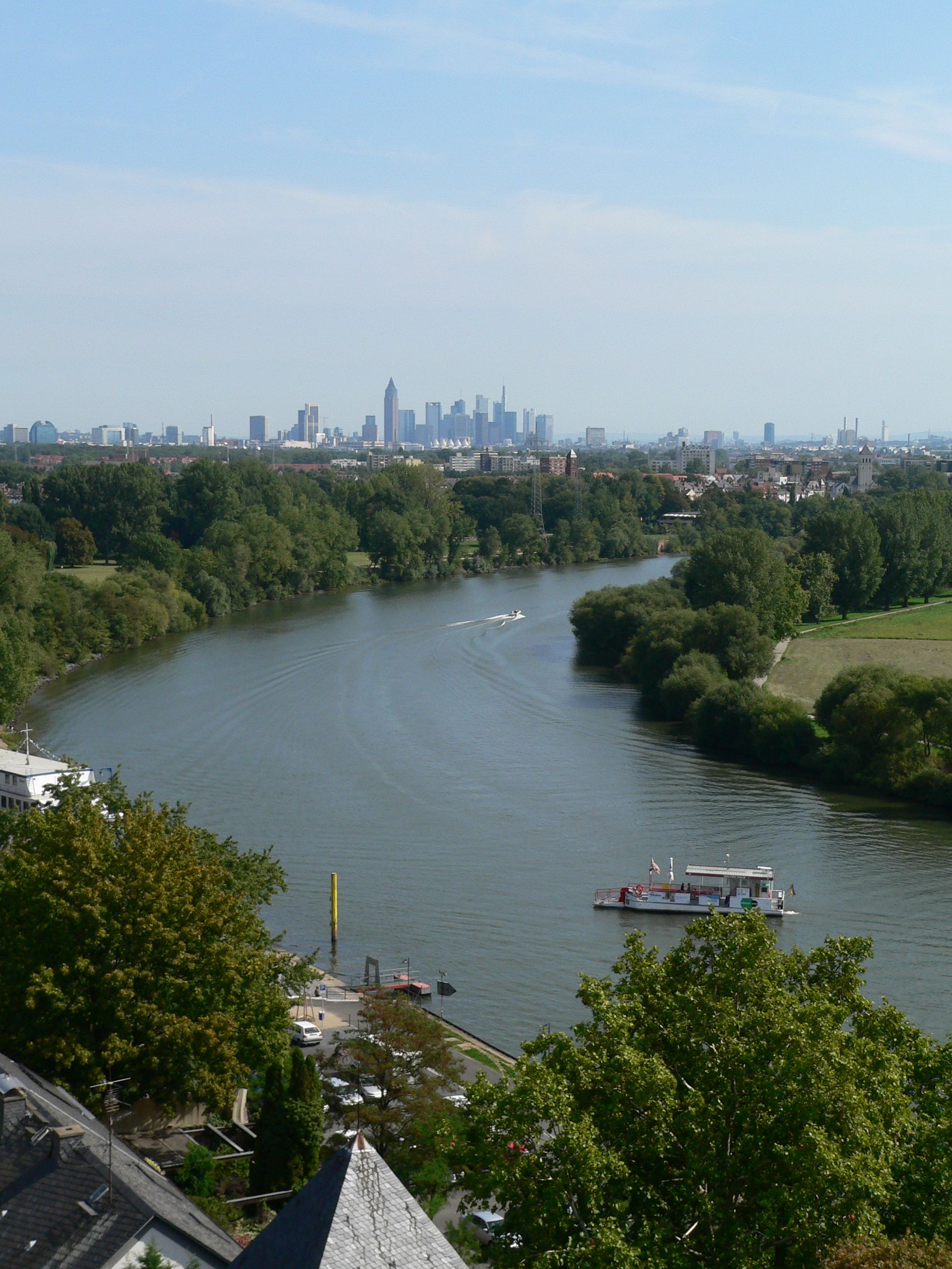 The Main River in Frankfurt-Höchst